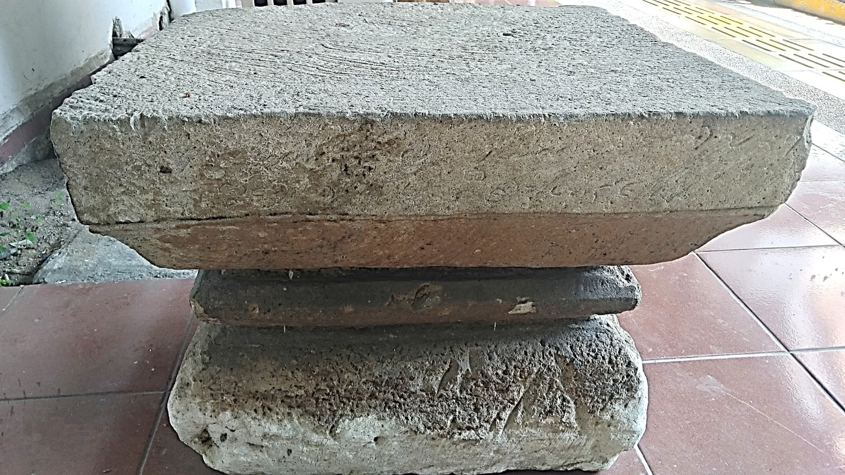 Sitopayan I inscription, found in Biaro (temple) Sitopayan, Sitopayan village, Portibi district, North Padang Lawas Regency, North Sumatra Province, Indonesia. Collection of the North Sumatra Provincial State Museum.